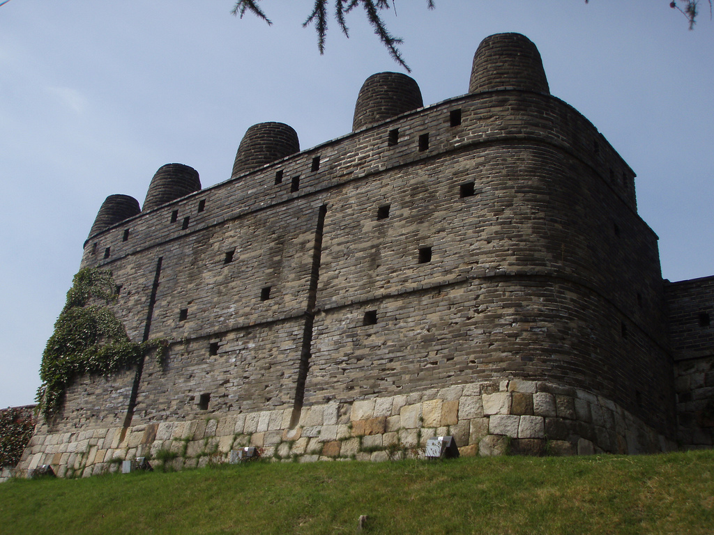 Bongdon, the Beacon Tower of Suwon Hwaseong Fortress